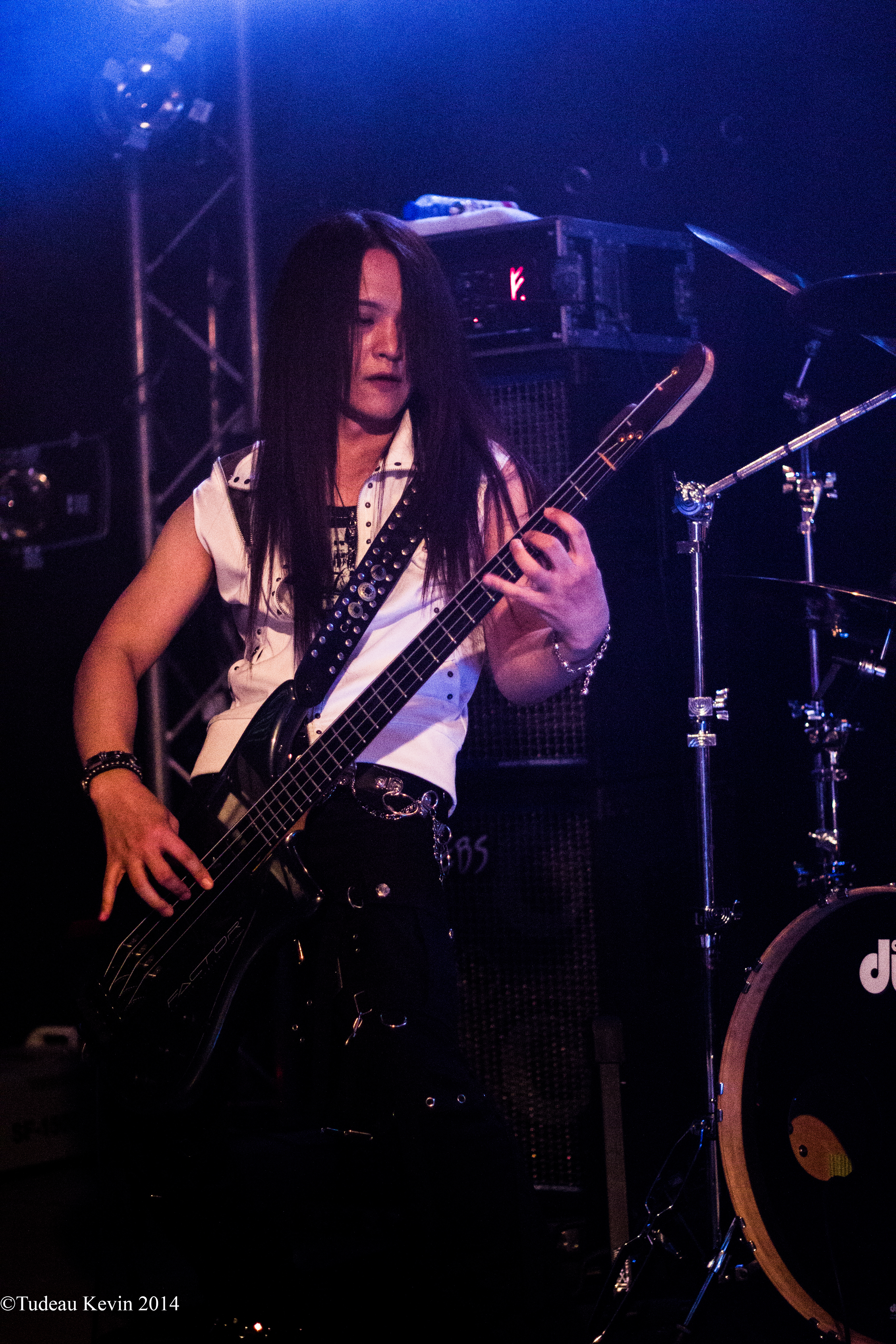 Galneryus. (2014)